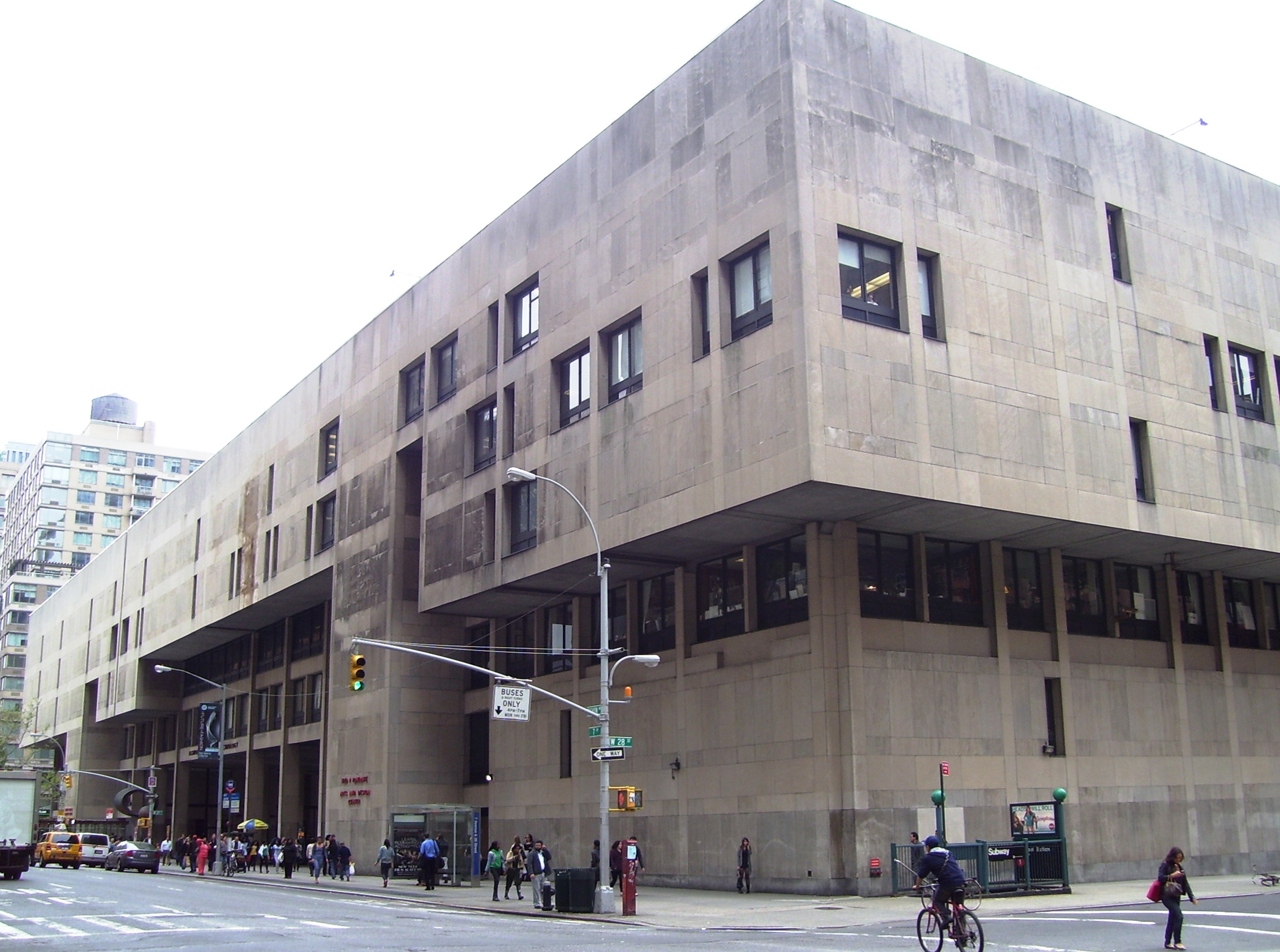 The Fred P. Pomerantz Art & Design Center (near) and the Shirley Goodman Resource Center (far) of the Fashion Institute of Technology, at 300 Seventh Avenue between 26th and 28th Streets in the Chelsea neighborhood of Manhattan, New York City, were built in 1977 and designed by DeYoung & Moscowitz. (Source: AIA Guide to NYC (4th ed.)